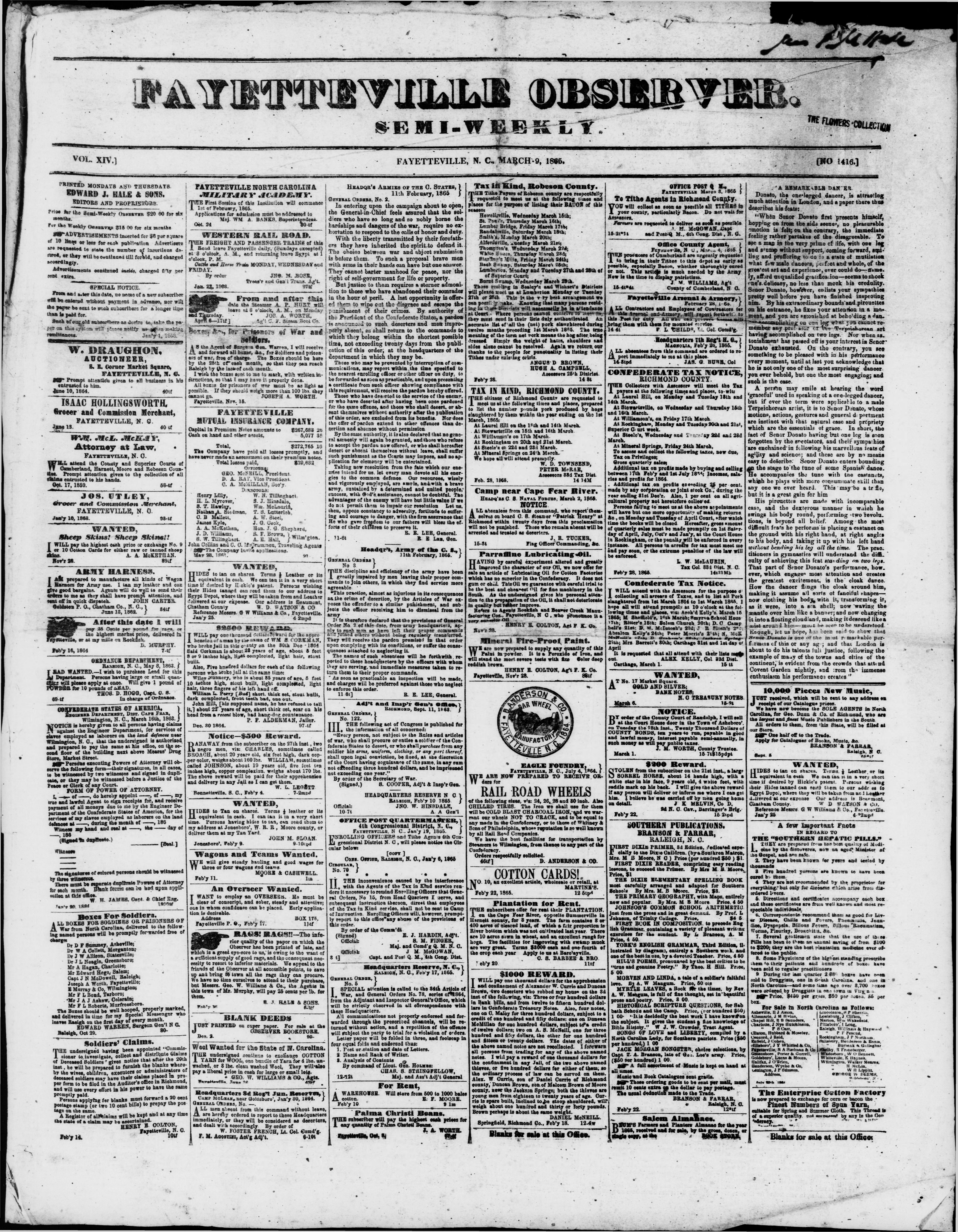 Front page of the March 9, 1865 Fayetteville Observer newspaper. This was the last issue published before the newspaper's office was destroyed by Sherman's army during the United States' Civil War.